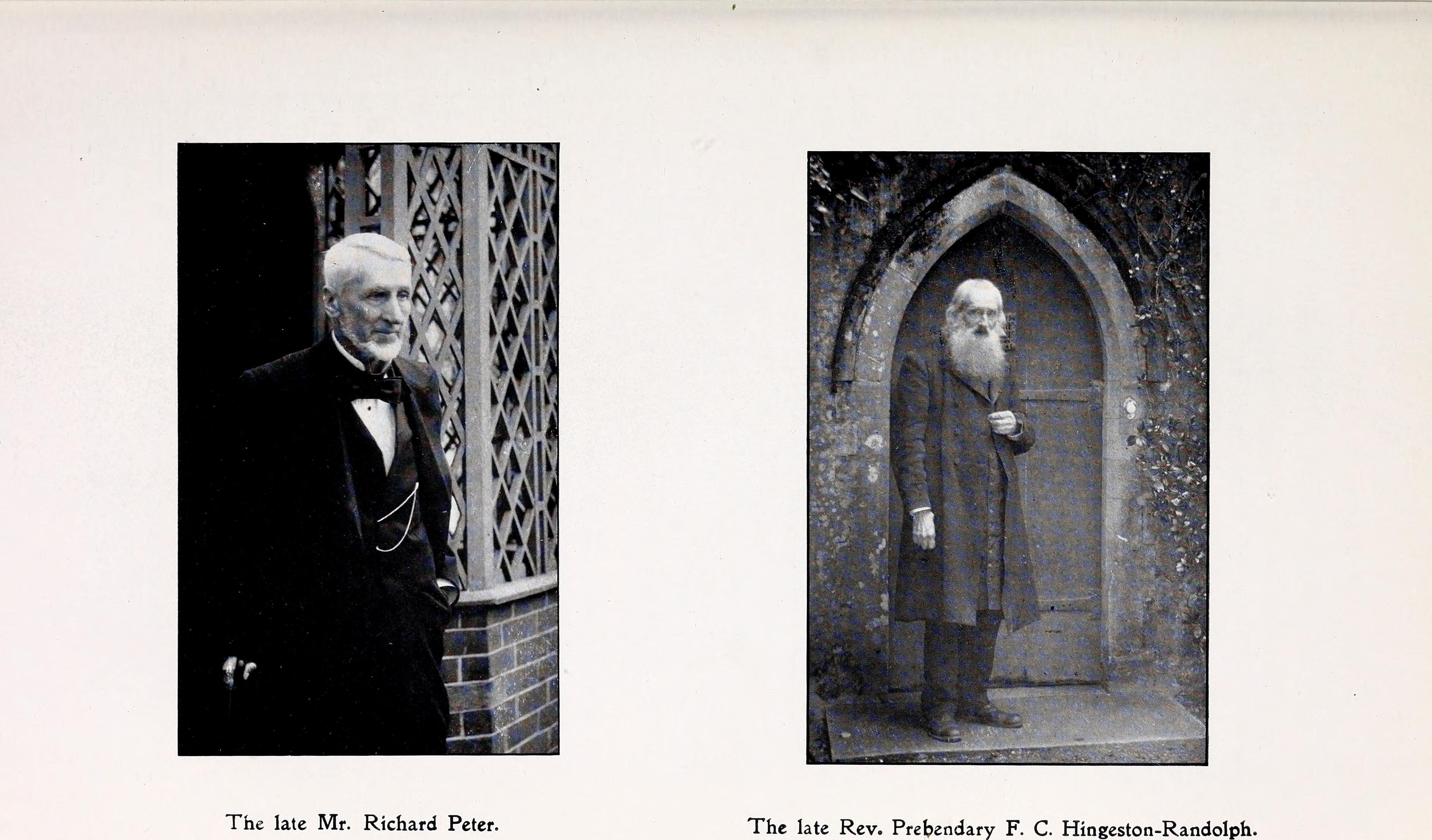 Title: Devon & Cornwall notes & queries Year: 1911 (1910s) Authors: Amery, John S Subjects: Publisher: Exeter, England : J.G. Commin Text Appearing Before Image: Virginia) in the year 1628. H. A. Hill. Text Appearing After Image: Devon and Cornwall Notes and Queries. 157 also filled the Municipal Offices of Auditor, Councillor,Alderman, and Mayor of Launceston. From 1874 tohe held the office of Town Clerk, which he resigned in thelatter year. In 1847 he married Anne Sophia, daughterof John and Mary Smith, by whom he had four children,Apsley Petre, Claude Hurst, Otho Bathurst, and AdelineMary. During the whole of his life he took a keen interest inthe material improvements at Launceston as to its roads,and markets, the abolition of the turnpike toll, restoration ofthe Church, building the School House, the Guildhall, theSouthgate Arch and Museum, excavations of the Priory andsimilar public works. At an early age Mr. Peter developed a taste for certainbranches of learning. He acquired some knowledge of theHebrew, Chaldee, Latin and French languages, and tookevery opportunity of examining old Charters and ancientmanuscripts, and became an authority of considerable repu-tation in the West. It is said that a transl